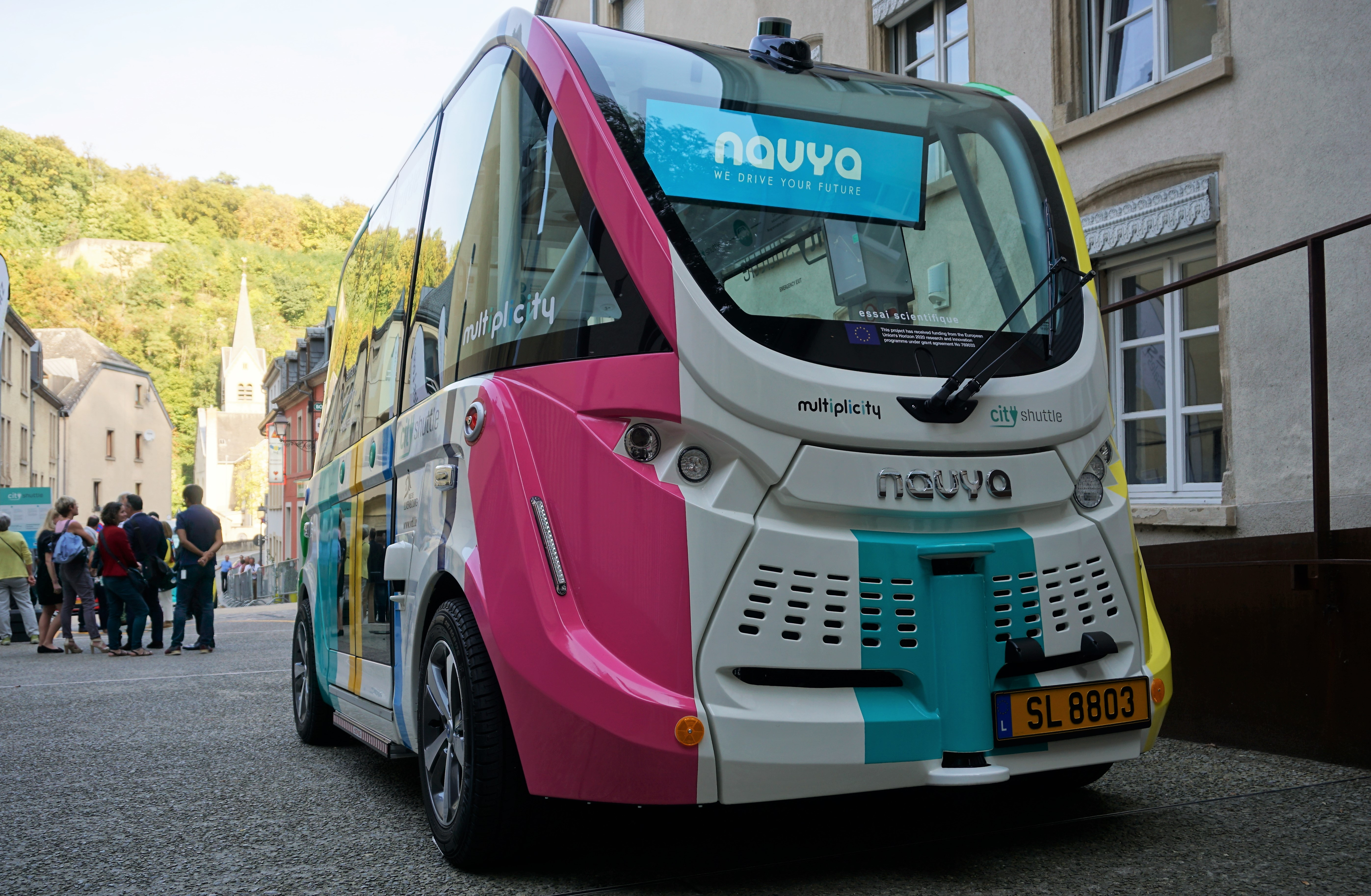 Luxembourg, "City Shuttle", an electric & autonomus shuttle.